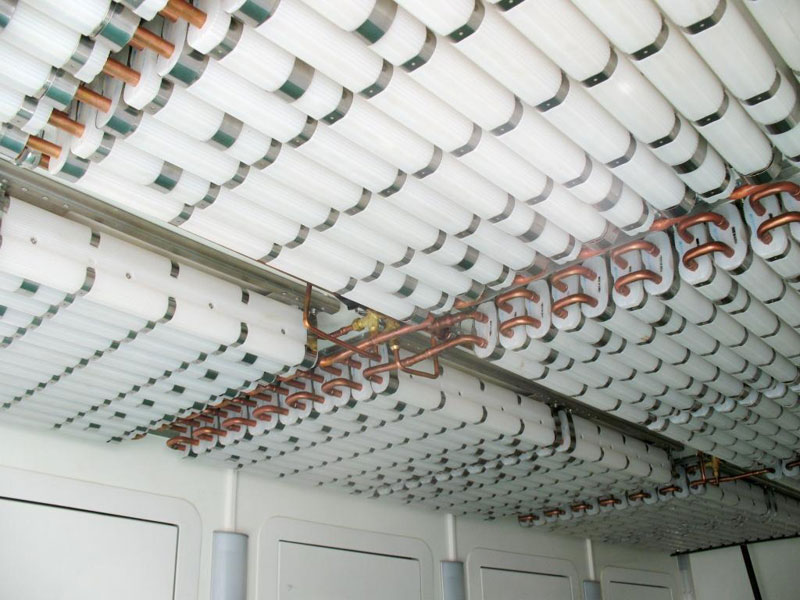 Eutectic system used for refrigeration in road truck